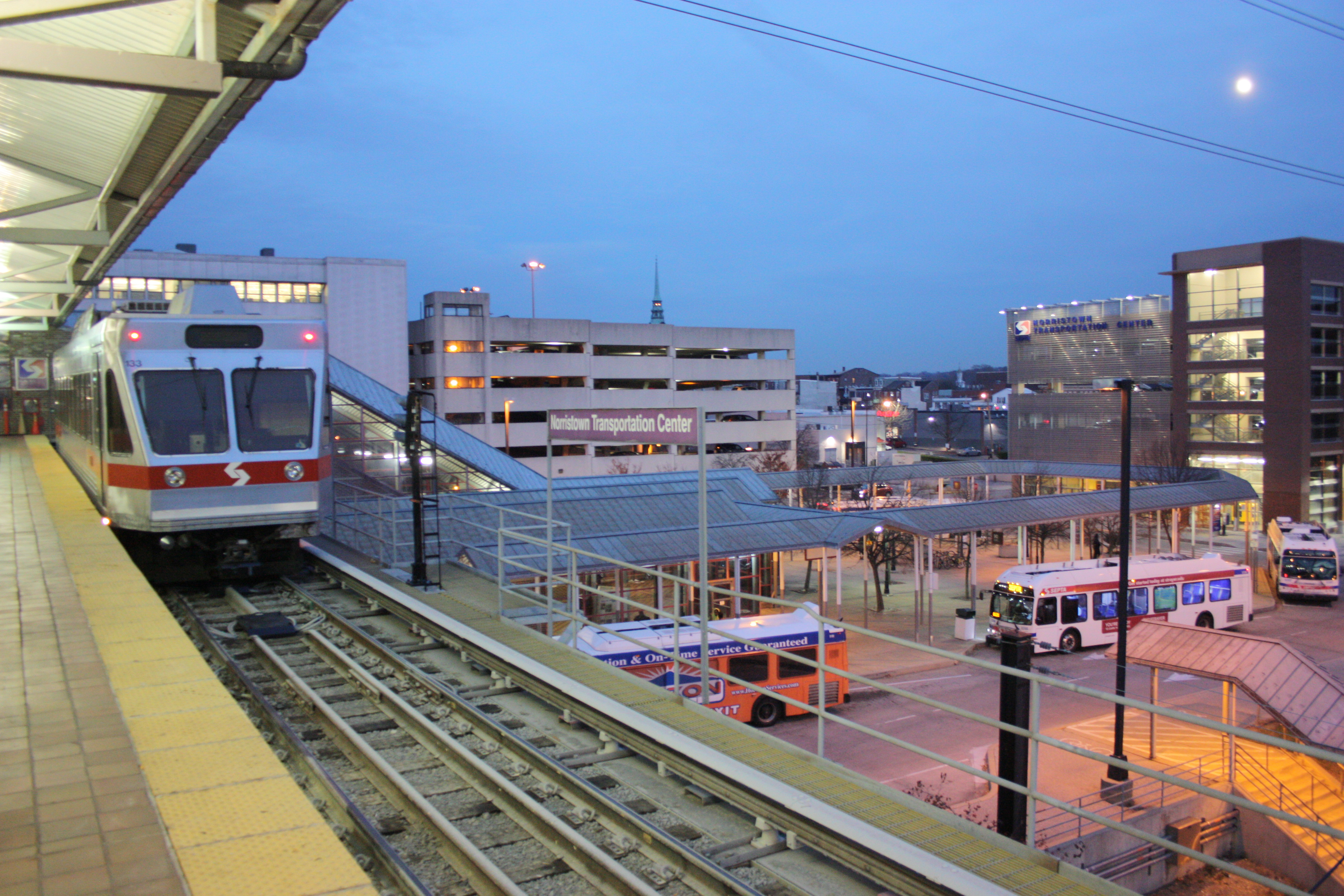 A Norristown High Speed Line car at Norristown Transportation Center in November 2013